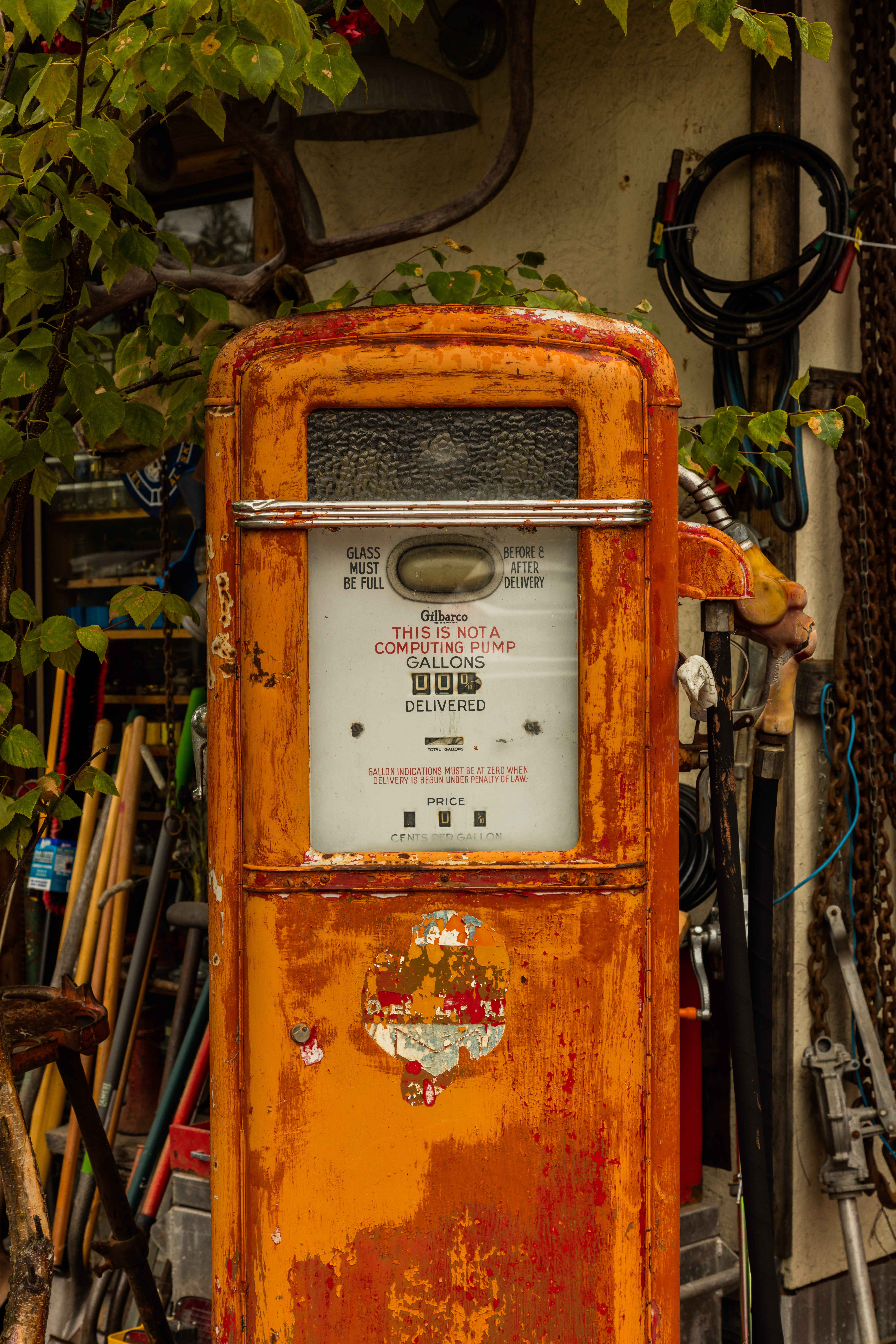 Gas pump in a shop in Trapper Creek, Alaska, USA